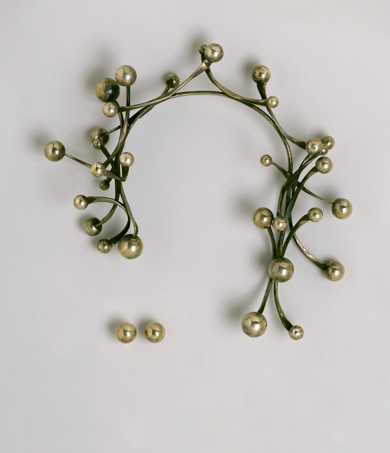 Art Smith (American, 1917-1982). Galaxy Necklace, ca. 1962. Silver, 7 1/8 x 9 x 2 1/2 in. (18.1 x 22.9 x 6.4 cm). Brooklyn Museum, Gift of Charles L. Russell, 2007.61.8. 2007.61.8